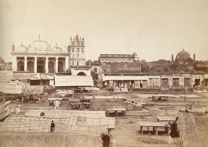 Description by the British Library: "Photograph of Dacca (Dhaka) taken in the 1880s, from an album 'Architectural Views of Dacca', containing 13 prints by Johnston and Hoffman. ... This photograph presents a general view looking across the market place in Dhaka. In the centre of the image is an old brass-cannon of native manufacture, found in the Buriganga riverbed. On the left is the chief mosque in the city."[1] Includes Bibi Mariam Cannon, a Mughal-era cannon.